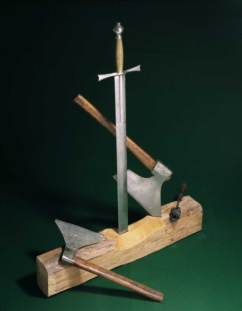 Executioner's sword and axes used by the executioner-family Lædel in Norway.